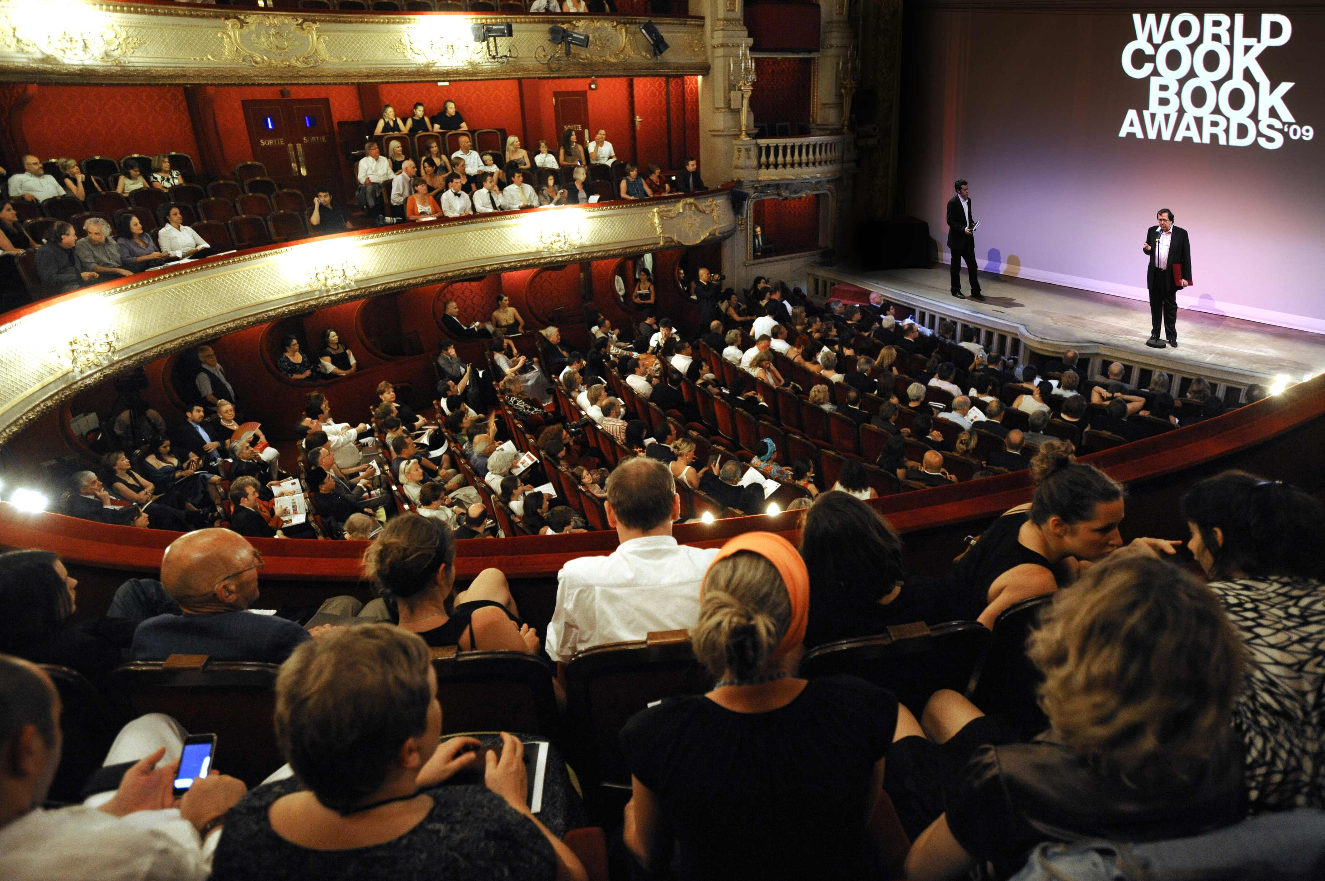 Gourmand Awards 2009 at La Comédie-Française